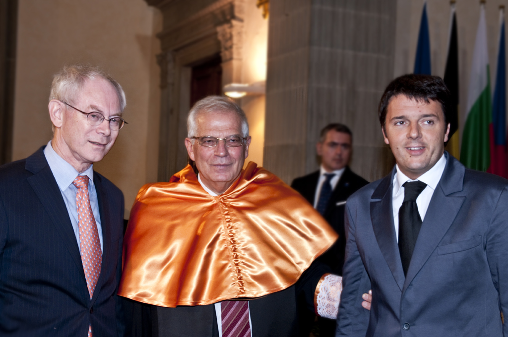 Herman Van Rompuy, Matteo Renzi attend the 2011-12 Official opening of the European University Institute.